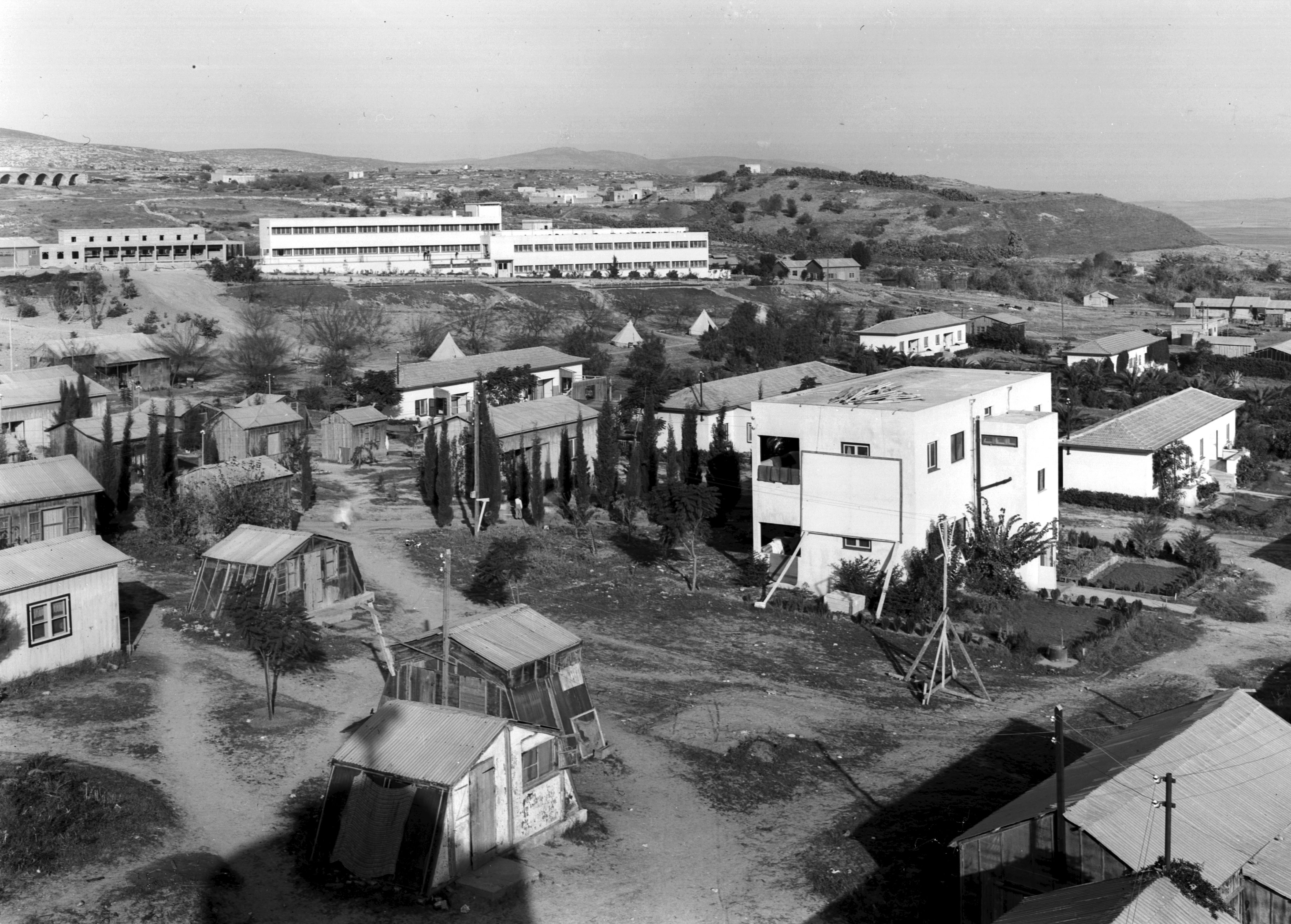 VIEW OF "MISHMAR HAEMEK" WITH ITS LARGE SCHOOL BUILDING IN THE BACKGROUND. קיבוץ משמר העמק.